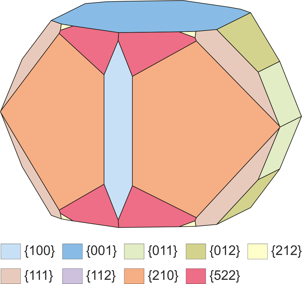 Drawing of a Pucherite crystal from Schneeberg, Saxony; reference: Dana's System of Mineralogy, 7. edition, volume II, page 1051